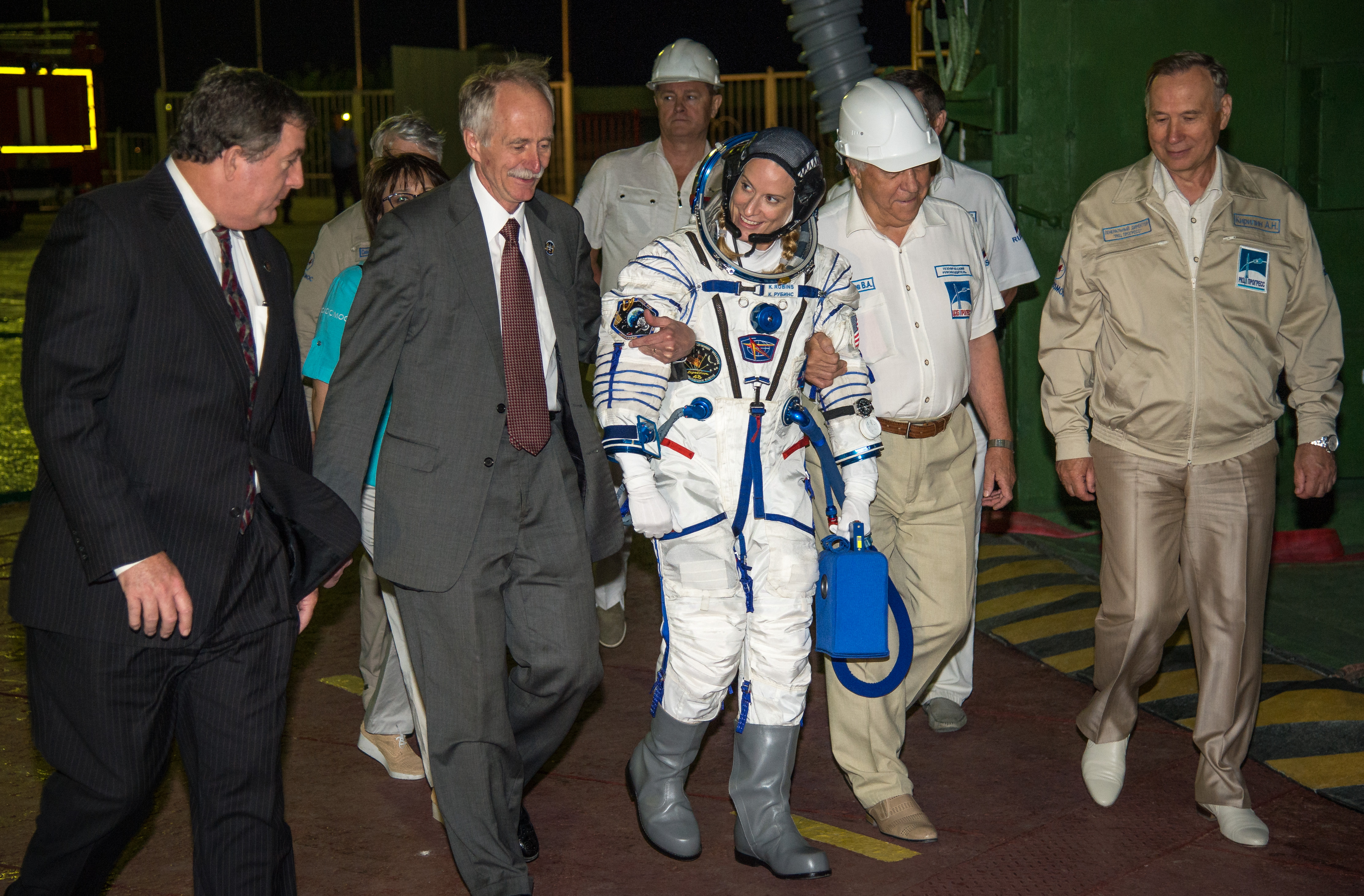 Kirk Shireman of NASA, ISS Program Manager, left, and William Gerstenmaier, NASA Associate Administrator for Human Exploration and Operations walk with NASA astronaut Kate Rubins as she prepares to board the Soyuz MS-01 spacecraft with Russian cosmonaut Anatoly Ivanishin of Roscosmos, and Japanese astronaut Takuya Onishi of the Japan Aerospace Exploration Agency (JAXA), Thursday, July 7, 2016 at the Baikonur Cosmodrome in Kazakhstan. Rubins, Ivanishin, and Onishi launched from the Baikonur Cosmodrome in Kazakhstan the morning of July 7, Kazakh time (July 6 Eastern time.) All three will spend approximately four months on the orbital complex, returning to Earth in October.